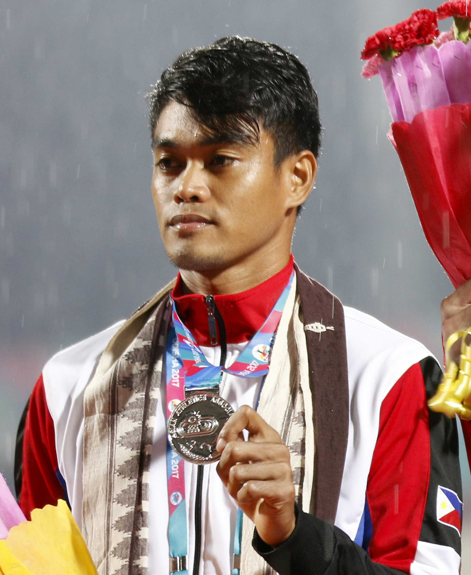 Athletes during 22nd Asian Athletics Championships in Bhubaneswar.